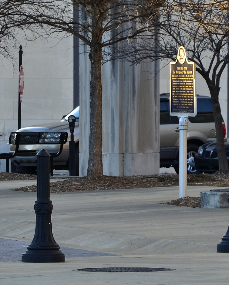 This is the stop where Rosa Parks got on the bus.